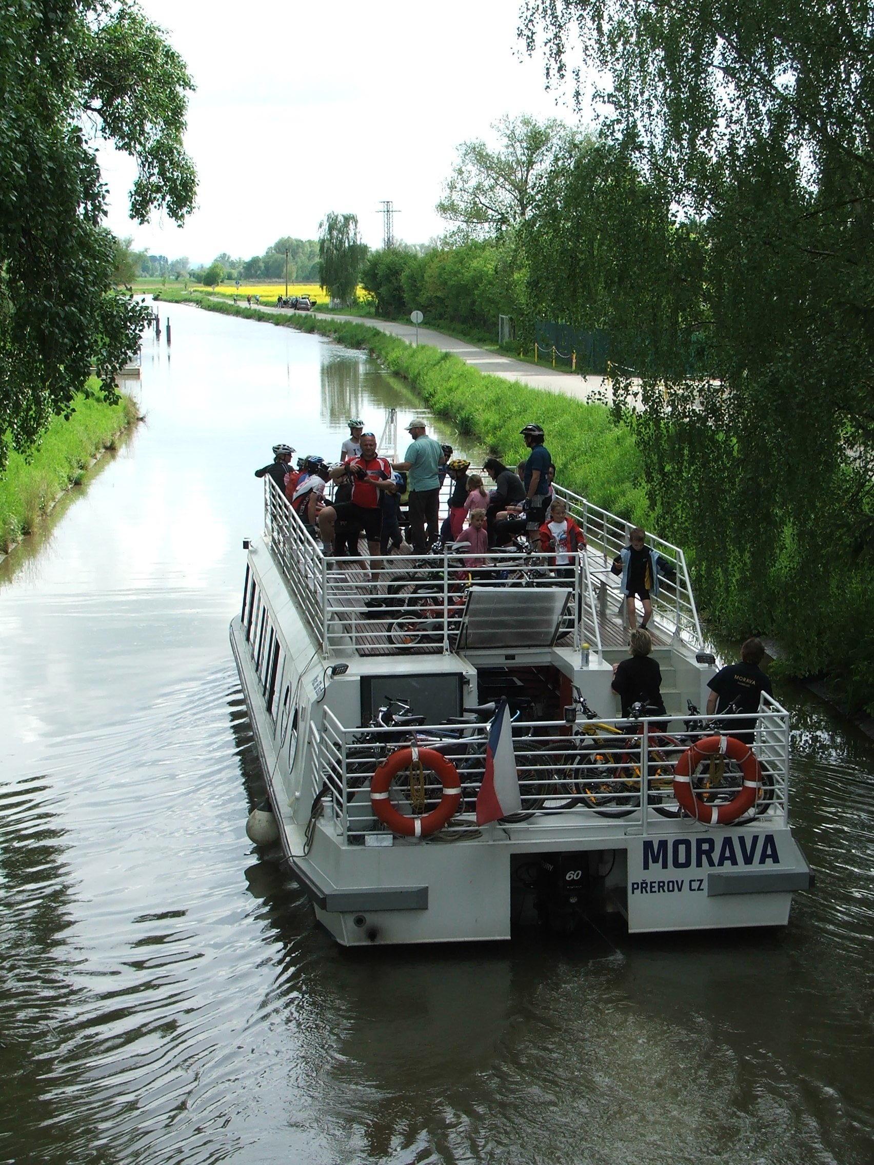 Baťa canal - under the navigation lock Spytihněv